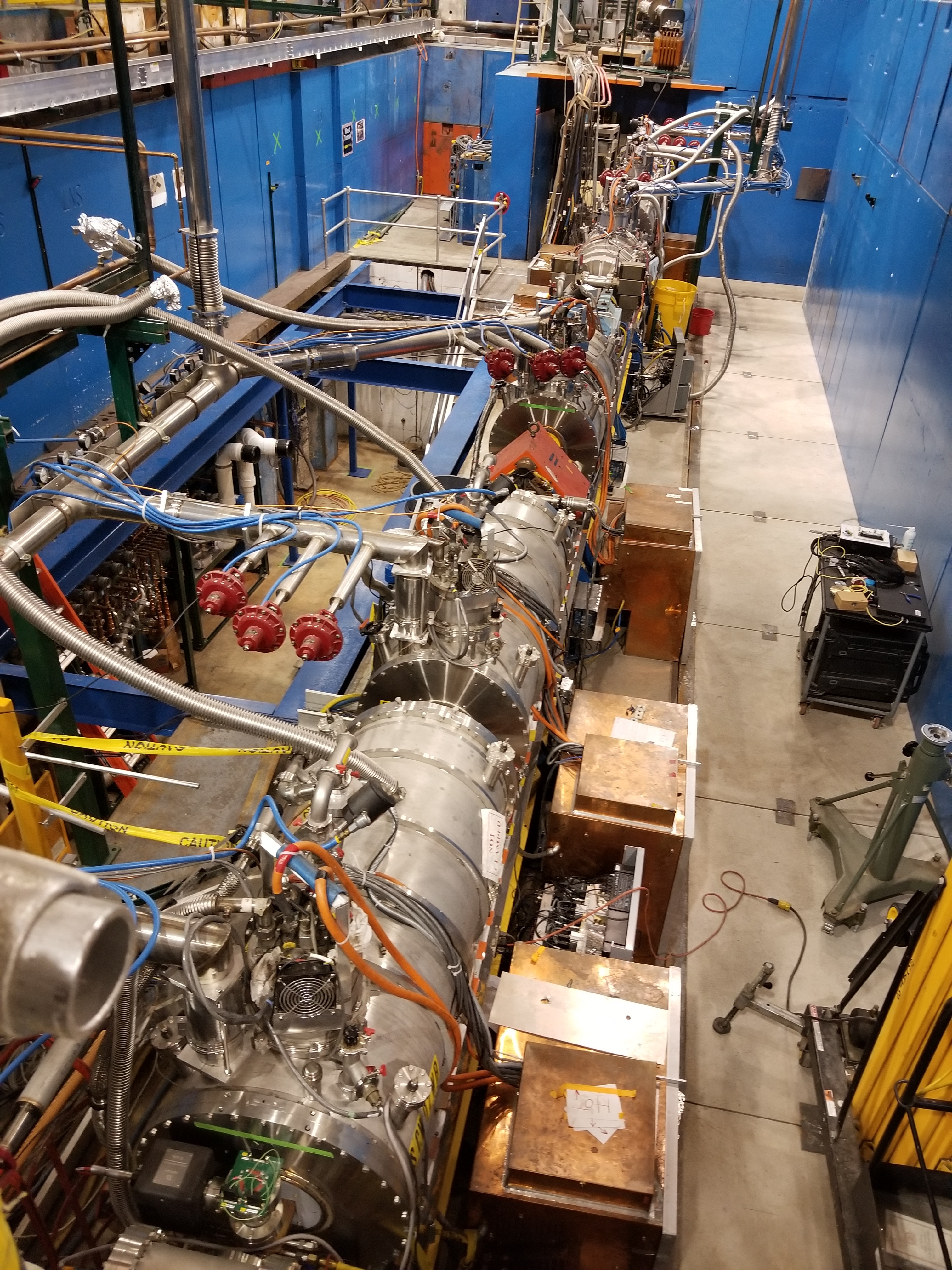 The area where the CLEO detector used to be located. Now used for accelerating cavities.